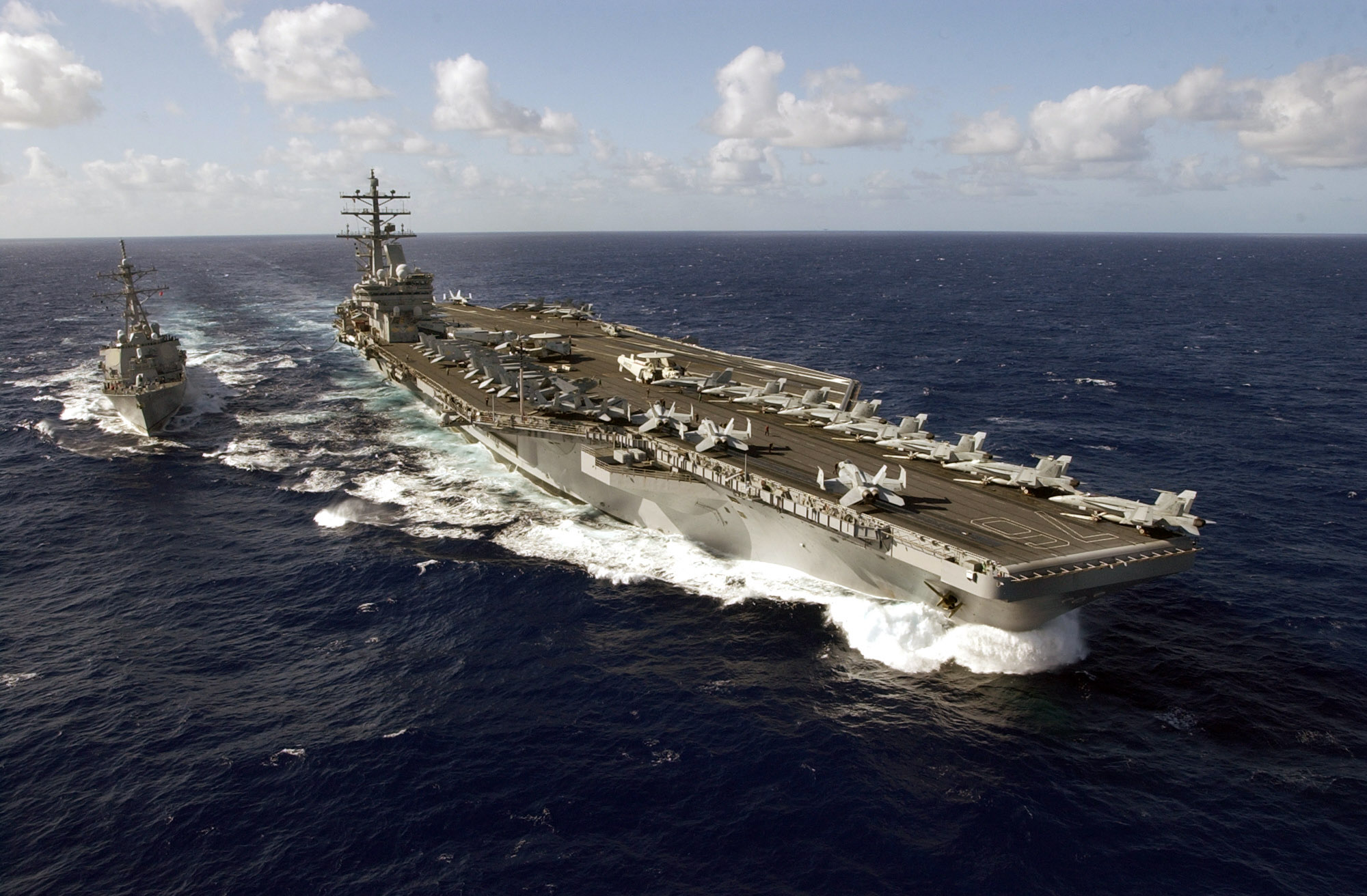 070209-N-5961C-003 Pacific Ocean (Feb. 9, 2007) - Cruising along side-by-side while pumping thousands of gallons of fuel, Nimitz-class aircraft carrier USS Ronald Reagan (CVN 76) and guided missile destroyer USS Paul Hamilton (DDG 60) perform a fueling at sea (FAS). Ronald Reagan Carrier Strike Group is currently underway in support of operations in the western Pacific.